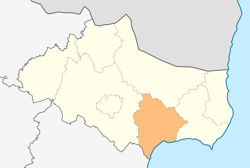 Map of Balchik municipality, Dobrich Province